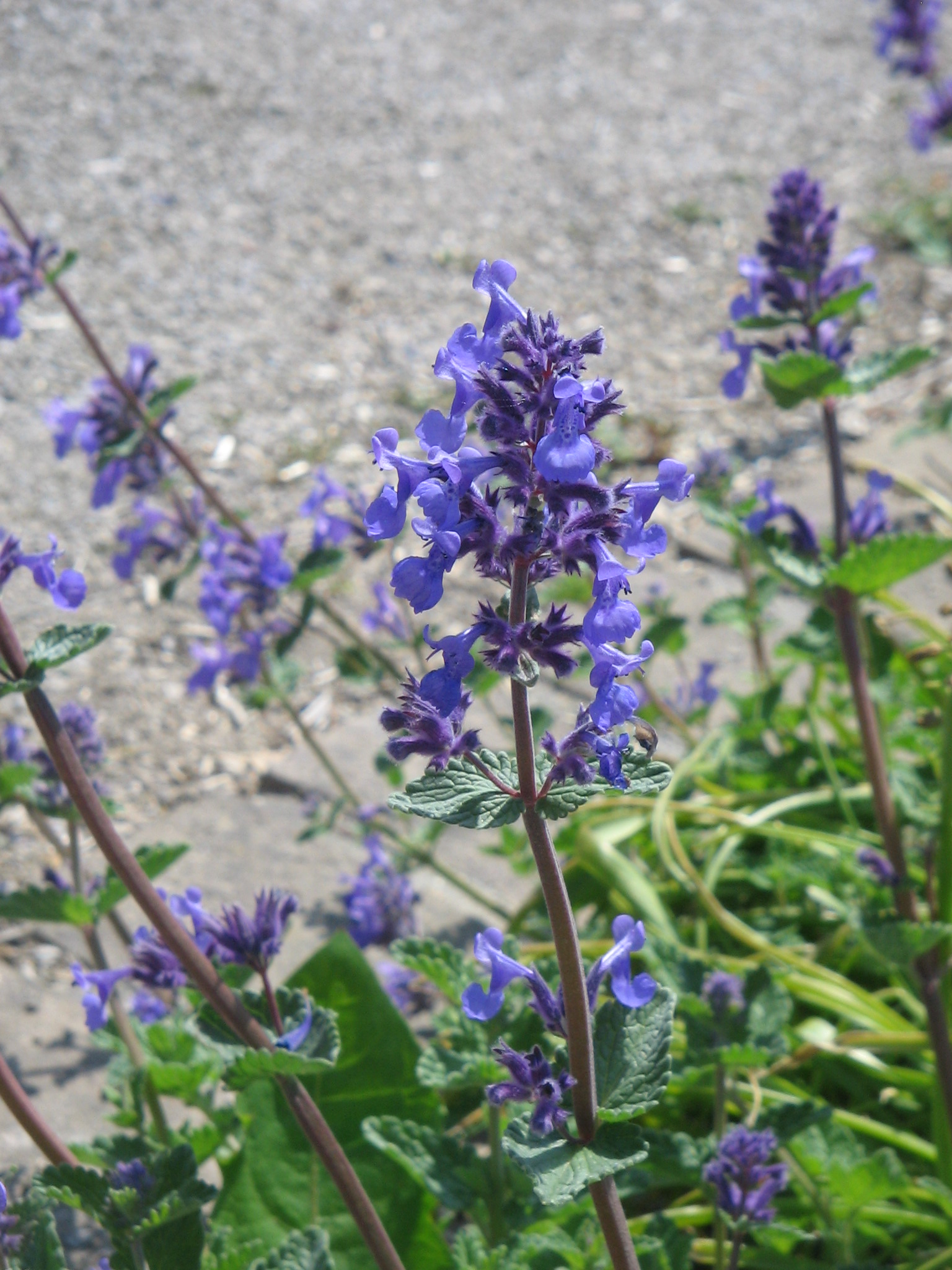 Nepeta × faassenii